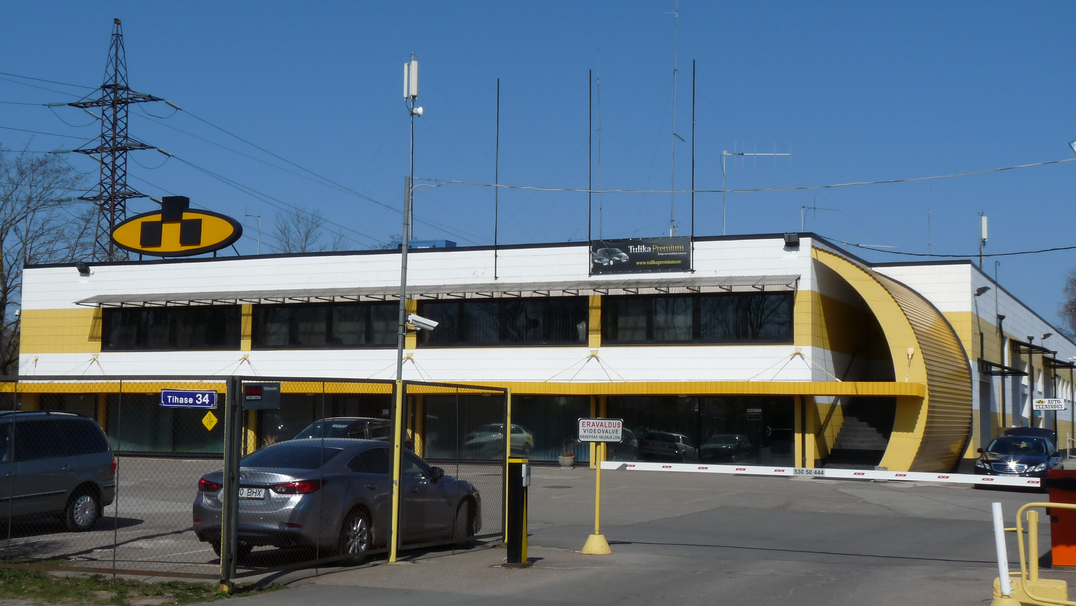 Head office of the largest taxi company in Estonia.